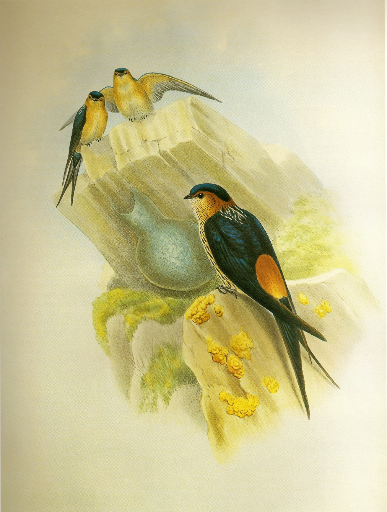 Red-rumped Swallow Cecropis daurica (Laxmann) (syn. Hirundo daurica)